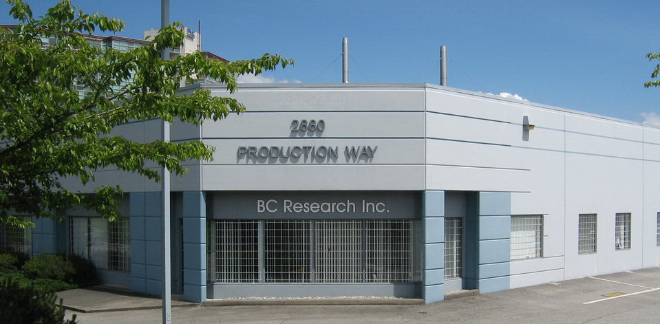 The new BC Research facility opened in 2010 and is located in Burnaby, B.C.